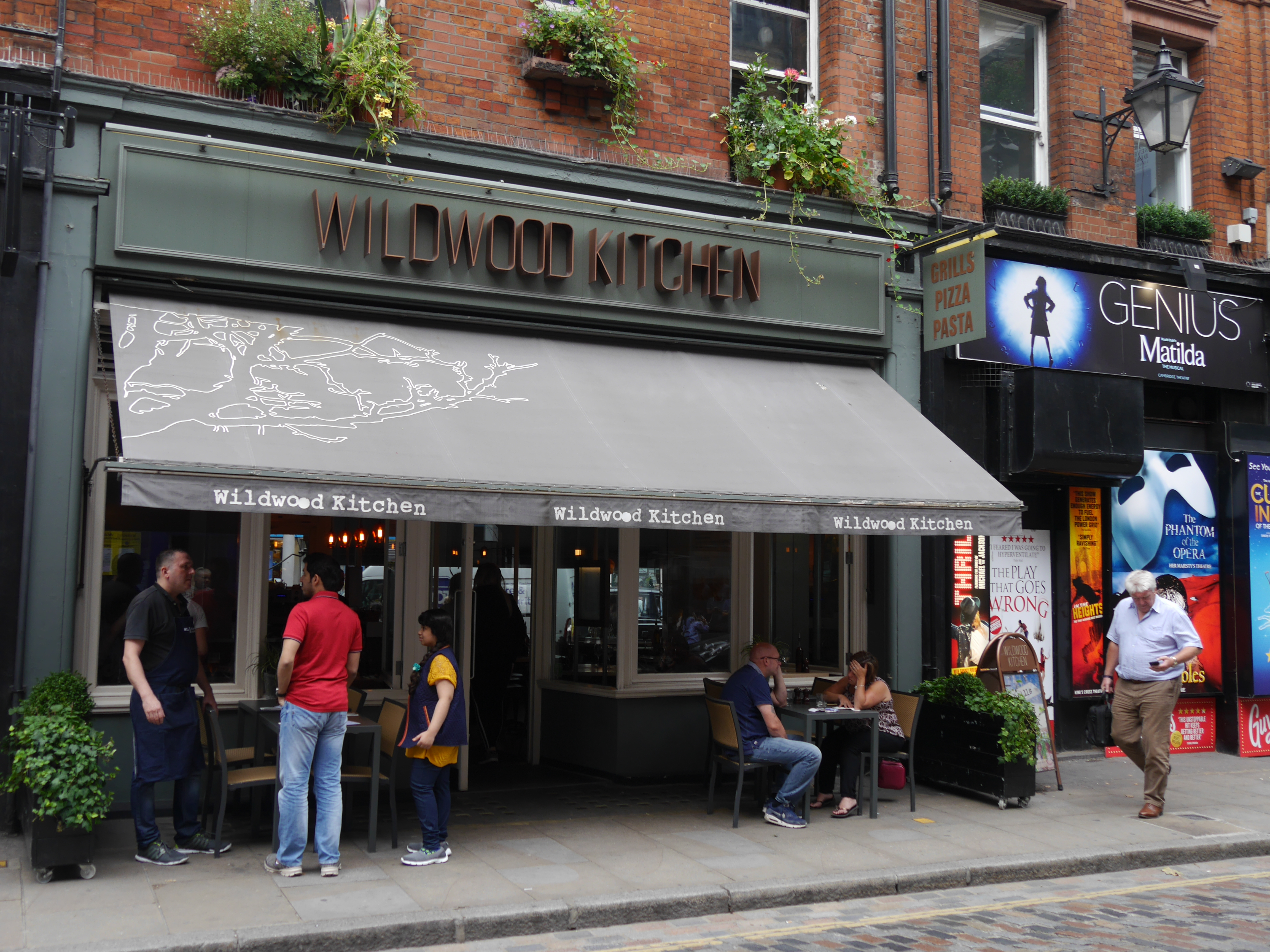 Monmouth Street, Covent Garden